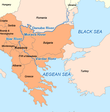 Bifurcation of River Nerodimka, Uroševac, Kosovo